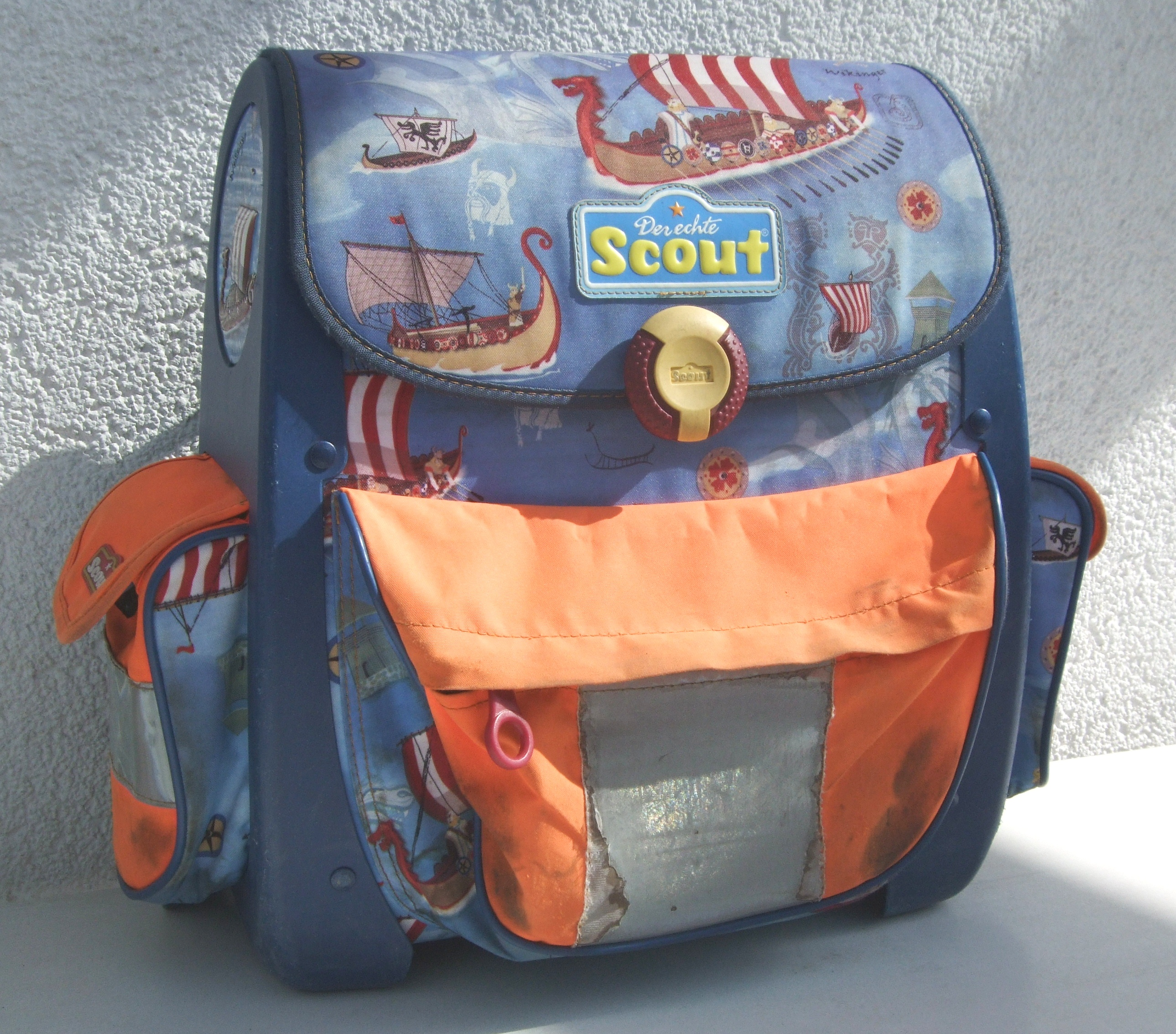 Schoolbag by Scout in viking-design